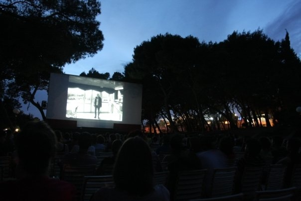 kino Bačvice